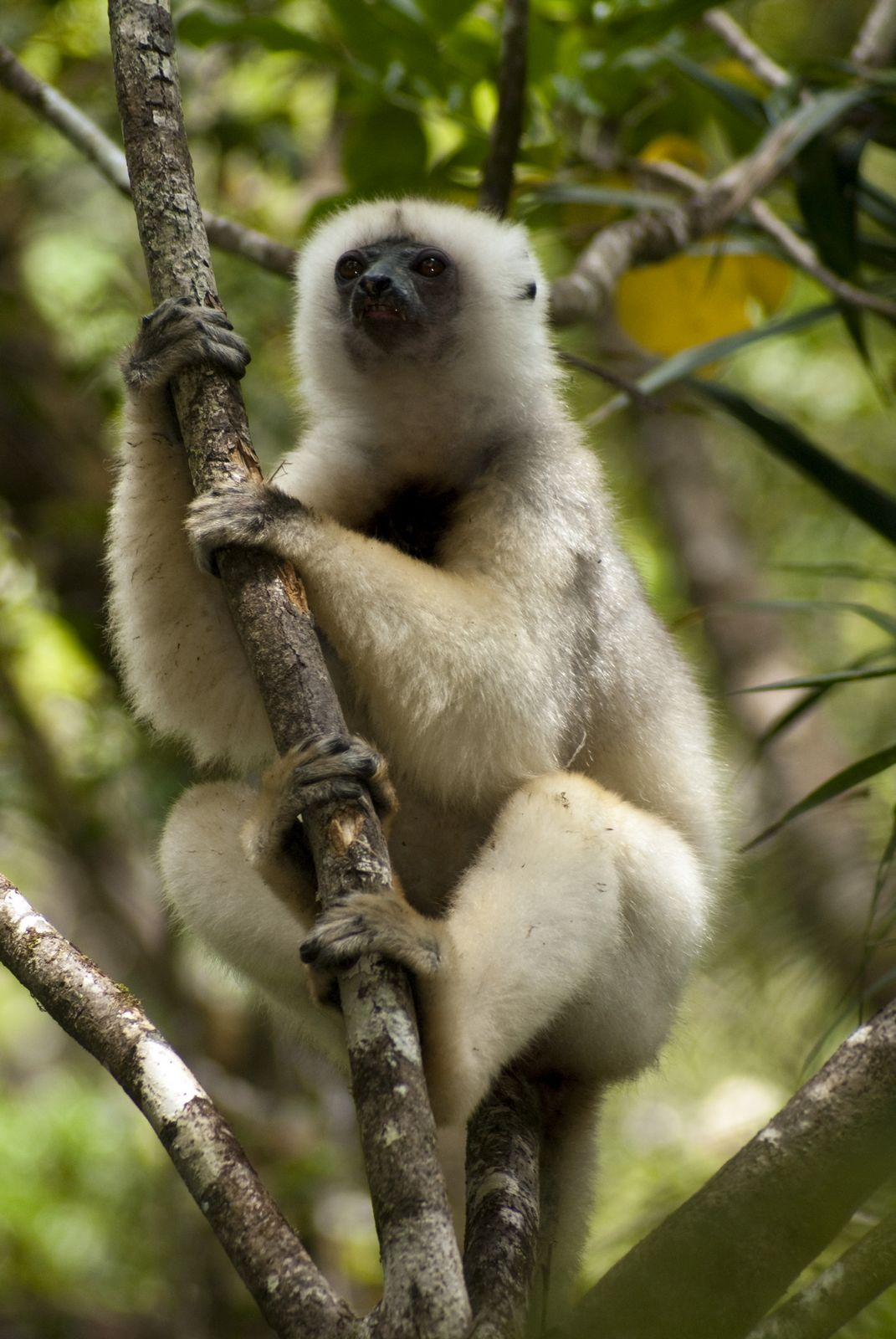 Silky sifaka